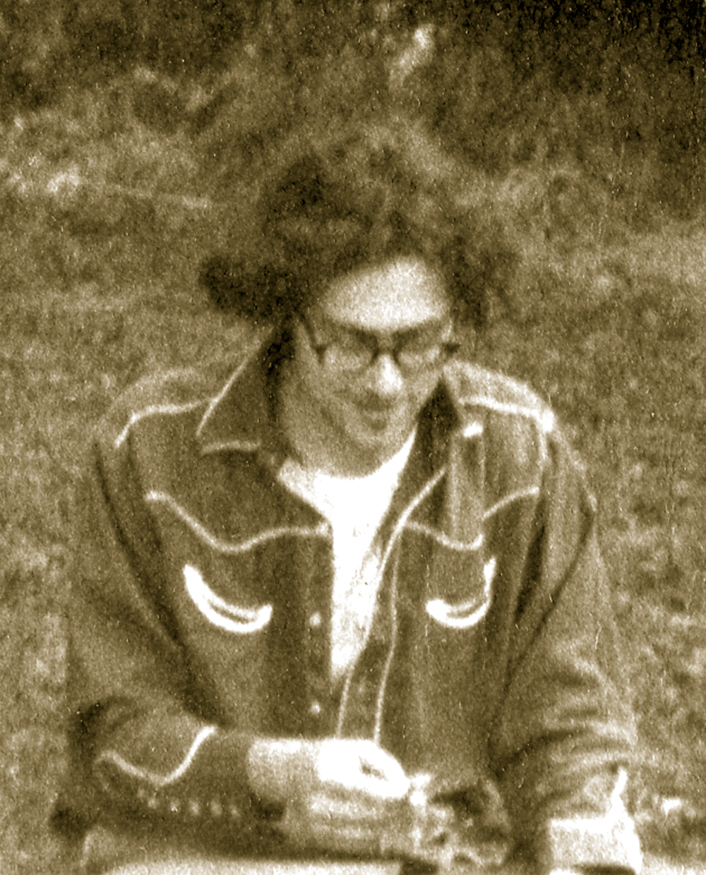 Photo of the American performance poet, author, editor and musician taken circa 1968